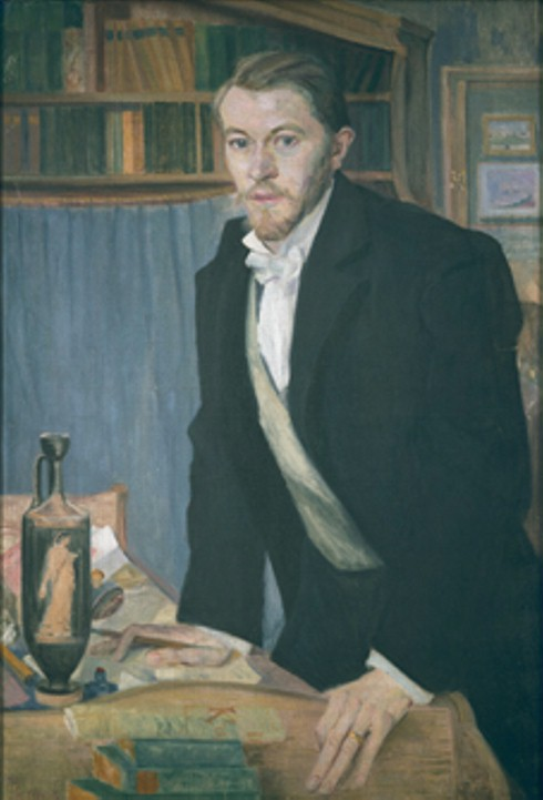 Portrait of Karl Ernst Osthaus (1874—1921), a notable patron of the European avant-garde.